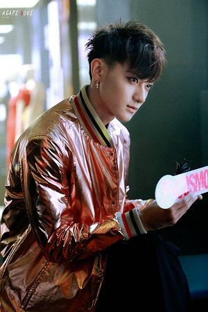 Huang Zitao at Ports 1961 Opening Ceremonie in Shanghai, October 13th, 2015